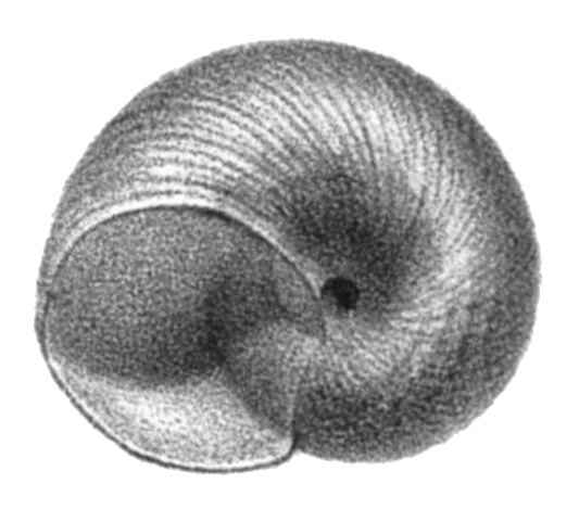 Drawing of an apical view of the shell of Choanomphalus aorus.